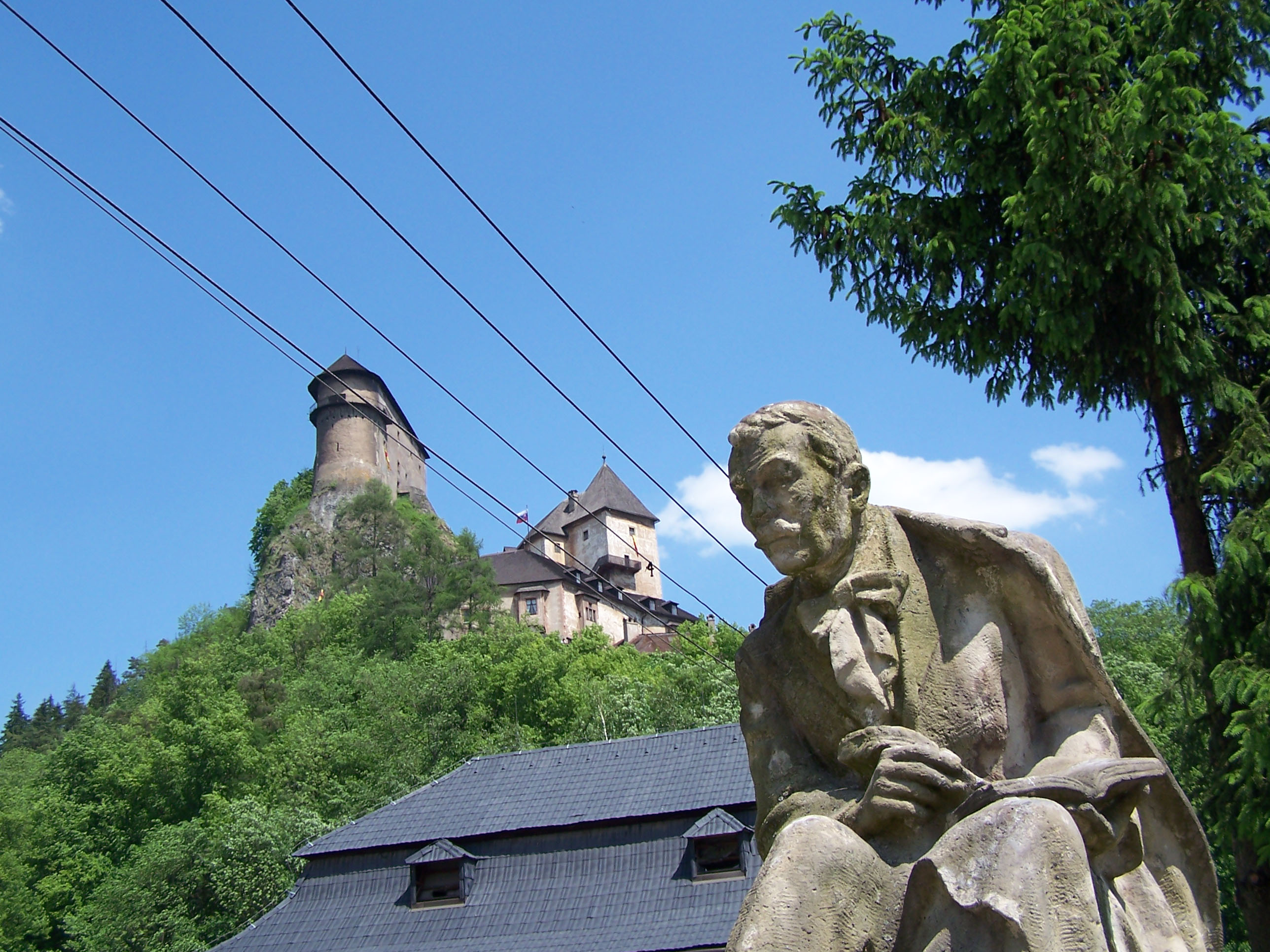 Orava Castle and the statue of poet Pavol Országh Hviezdoslav, Slovakia